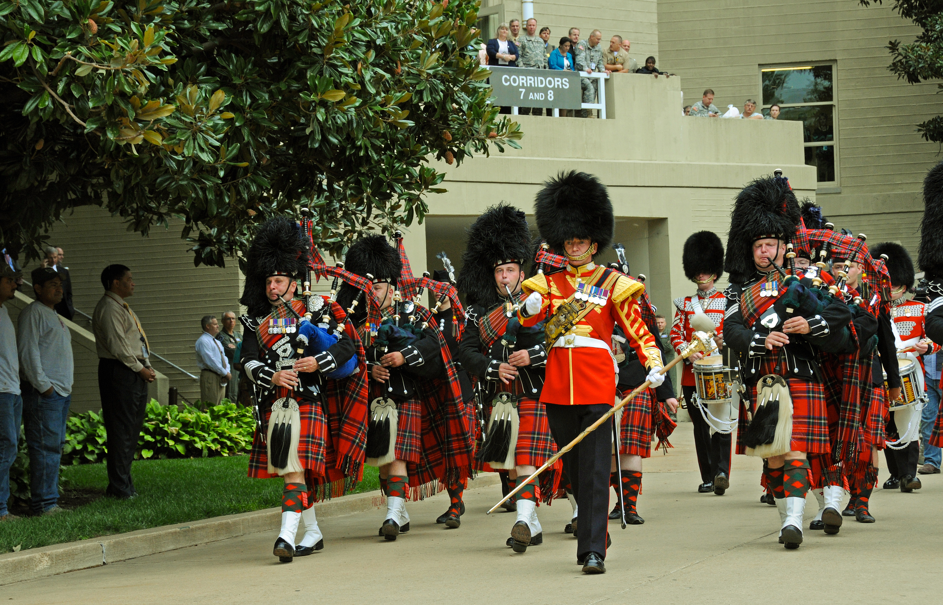 The British Army's 21-member Pipes and Drums corps of the 1st Battalion enter the Pentagon courtyard to put on a performance of piping, drumming and highland sword dancing Sept. 25.